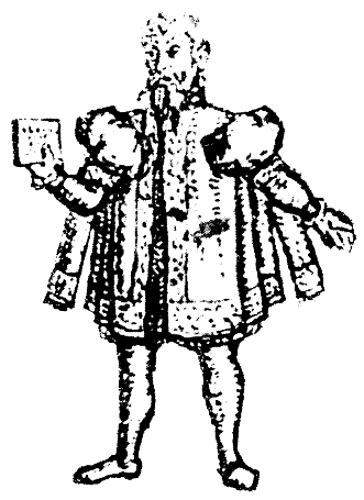 Facsimile of a pen drawing by Eric XIV of Sweden hand on the titlepage of a copy of Strabons De situ orbis